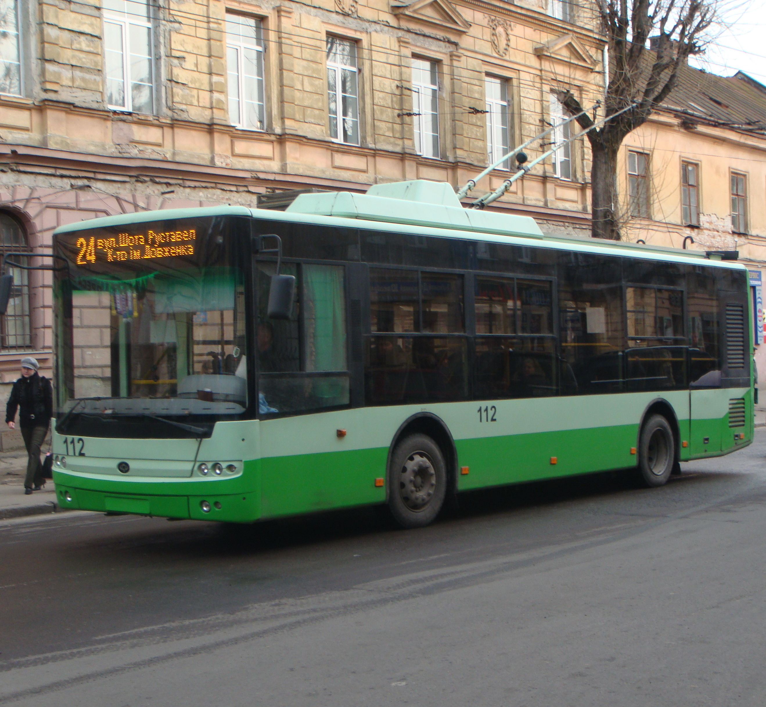 Bogdan T601.11 a digital camera photo